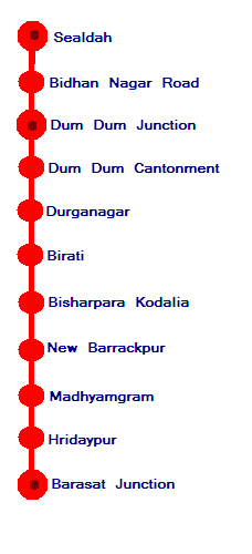 This the flow chart diagram of Barsat-Sealdah Local Train line.